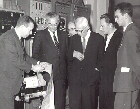 James Van Allen with 4 prominent Soviet scientists that visited University of Iowa, December 1959 University of Iowa, Department of Physics NASA photo, no longer on NASA images web site Dosiero:Van Allen with Soviet Scientists.jpg